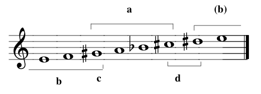 Ancient Greek Lydian tonos on E, in the chromatic genus, with tetrachords (a and b), note of conjunction (c), and tone of disjunction (d) labeled